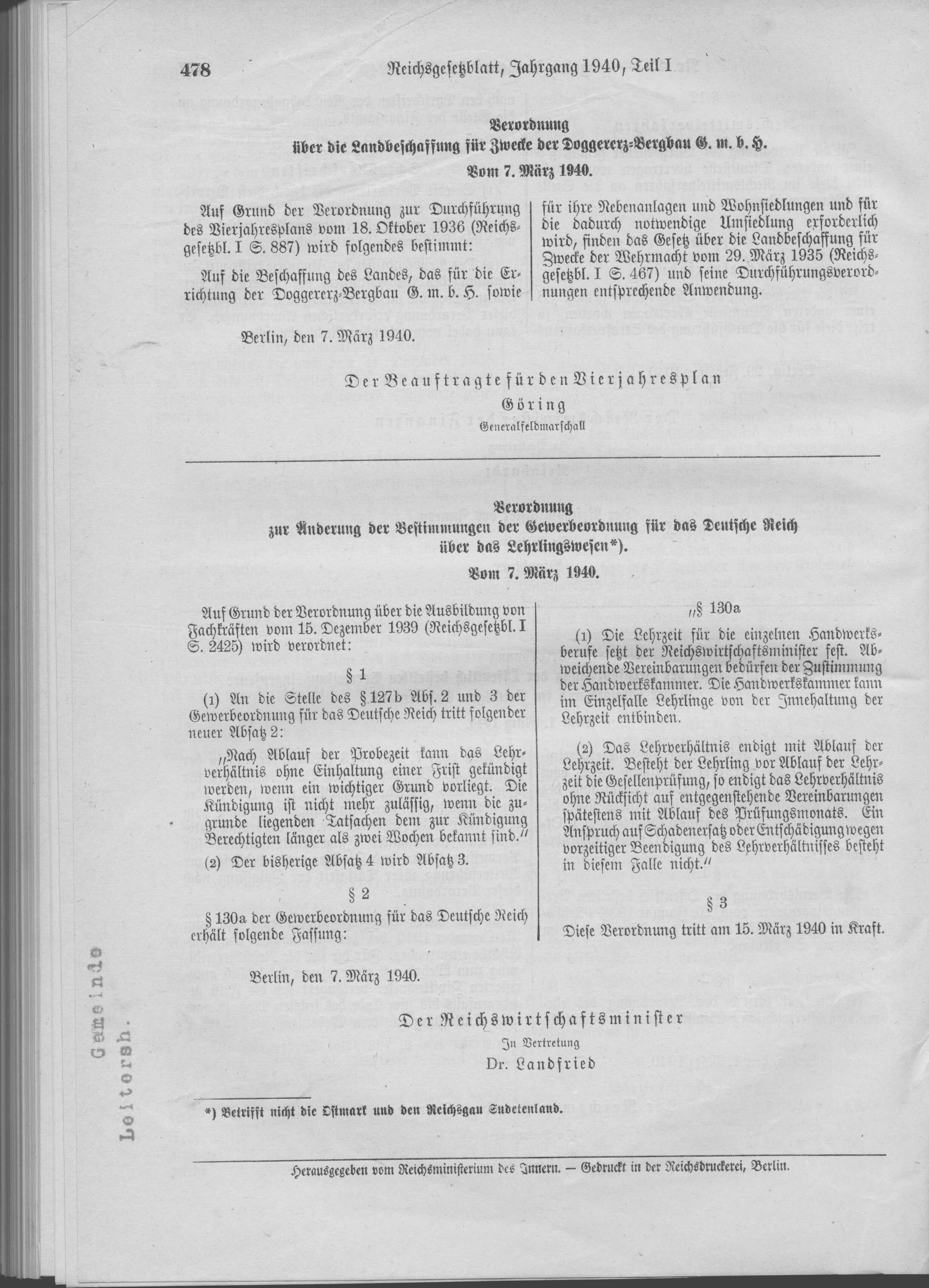 Scan from the Imperial Law Gazette of Germany, 1940, part 1